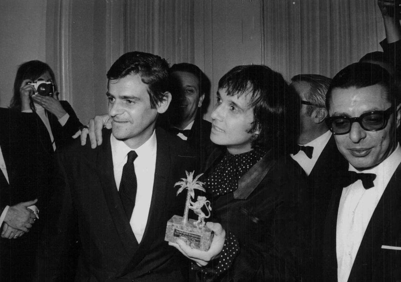 The Italian singer Sergio Endrigo and the Brazilian Roberto Carlos Braga celebrate the victory at the 18th Sanremo Music Festival